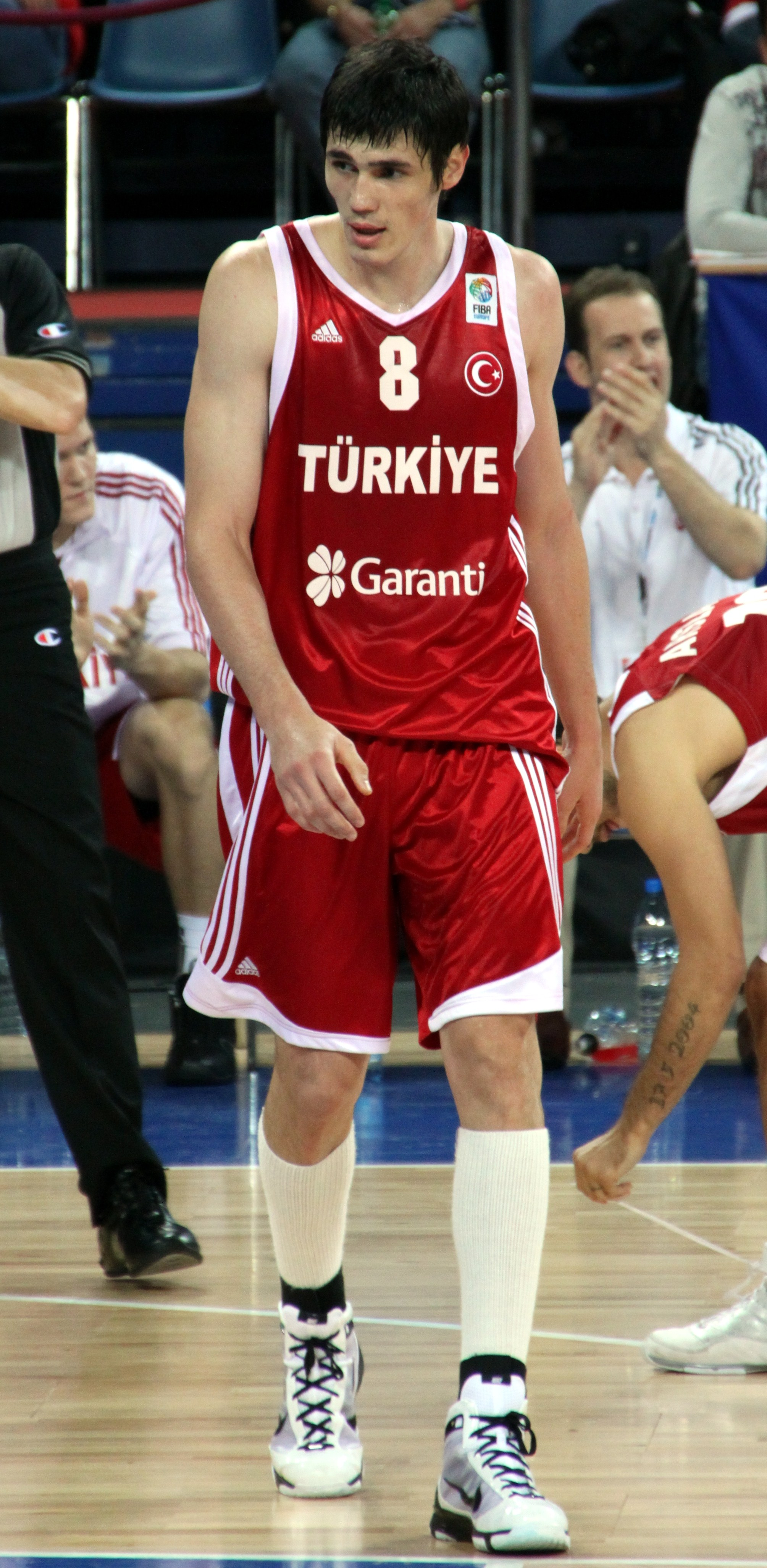 Turkish basketball player Ersan İlyasova